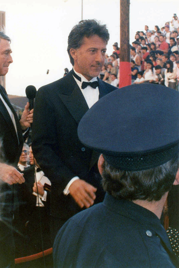 Dustin Hoffmanon the red carpet at the 1989 Academy Awards